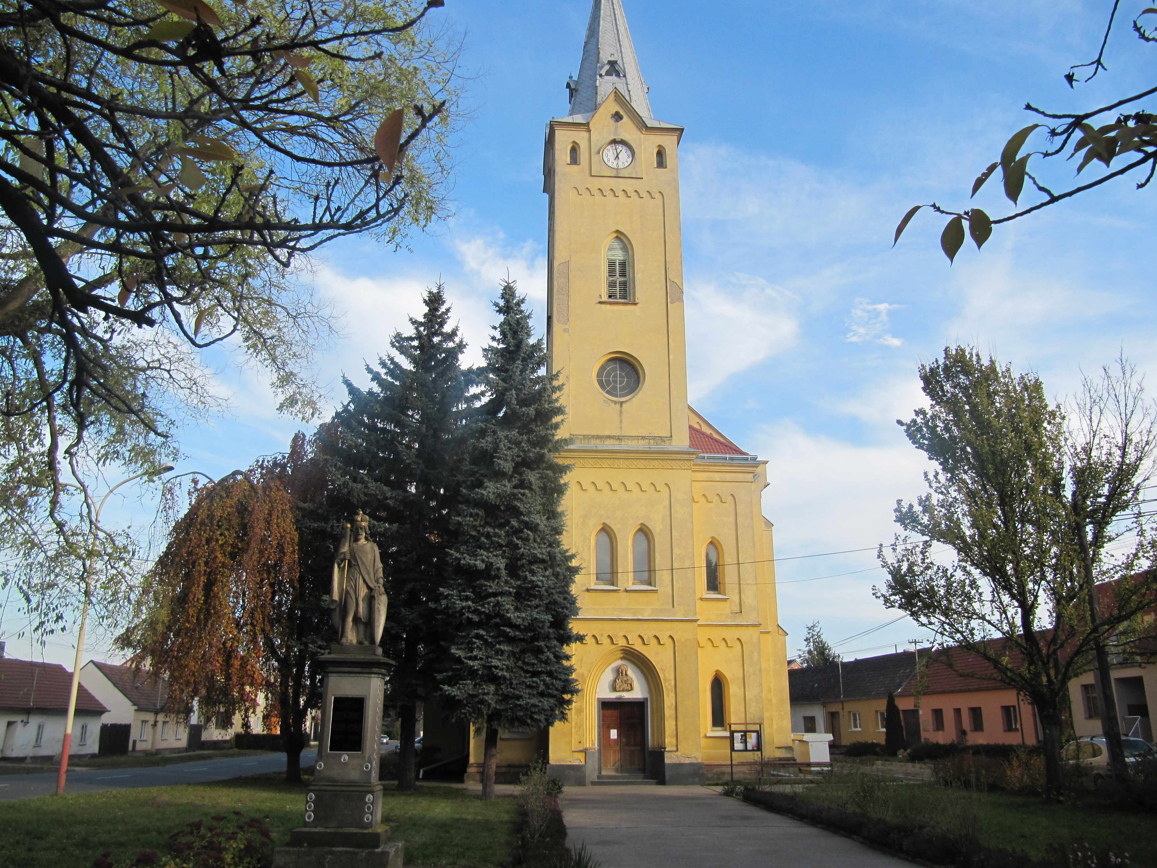 Moravský Písek in Hodonín District, Czech Republic. St.-Anne-church from 1908-1910.